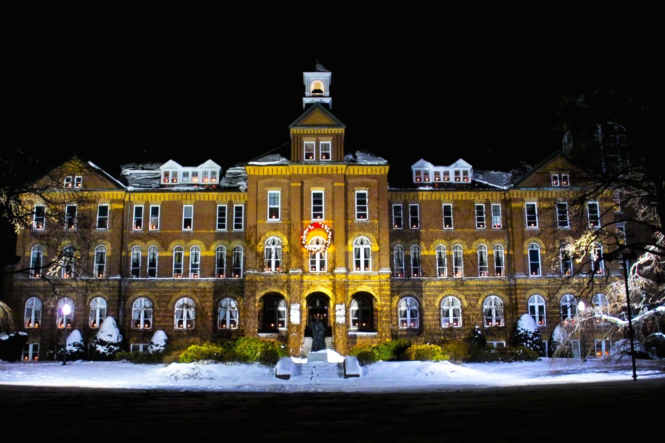 Saint Anselm College-Alumni Hall. Taken 12-15-07 right after my last final exam! I relaxed by going out to the Quad and snapping this shot.